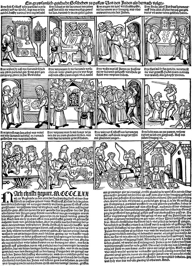 From a 15th-century German woodcut of the supposed host desecration by the Jews of Passau, 1477. The hosts are stolen and pierced in a Jewish ritual; they are recovered, and shown to be holy. The guilty Jews are beheaded and tortured with hot pincers; and the entire community is driven out with their feet bound and held to the fire. At the end the Christians kneel and pray.